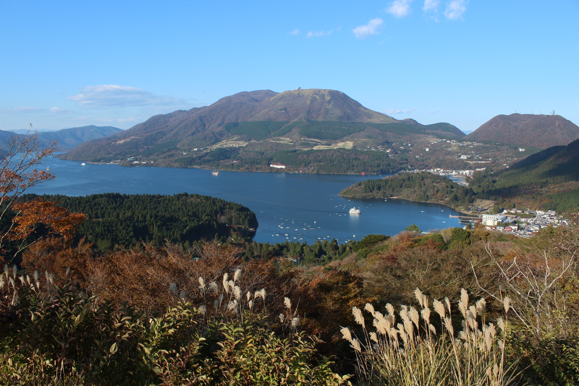 View of the inner Hakone caldera. Central cones of Hakone volcano seen from the south. Lake Ashi in the foreground. Taken from Kurakake lookout.